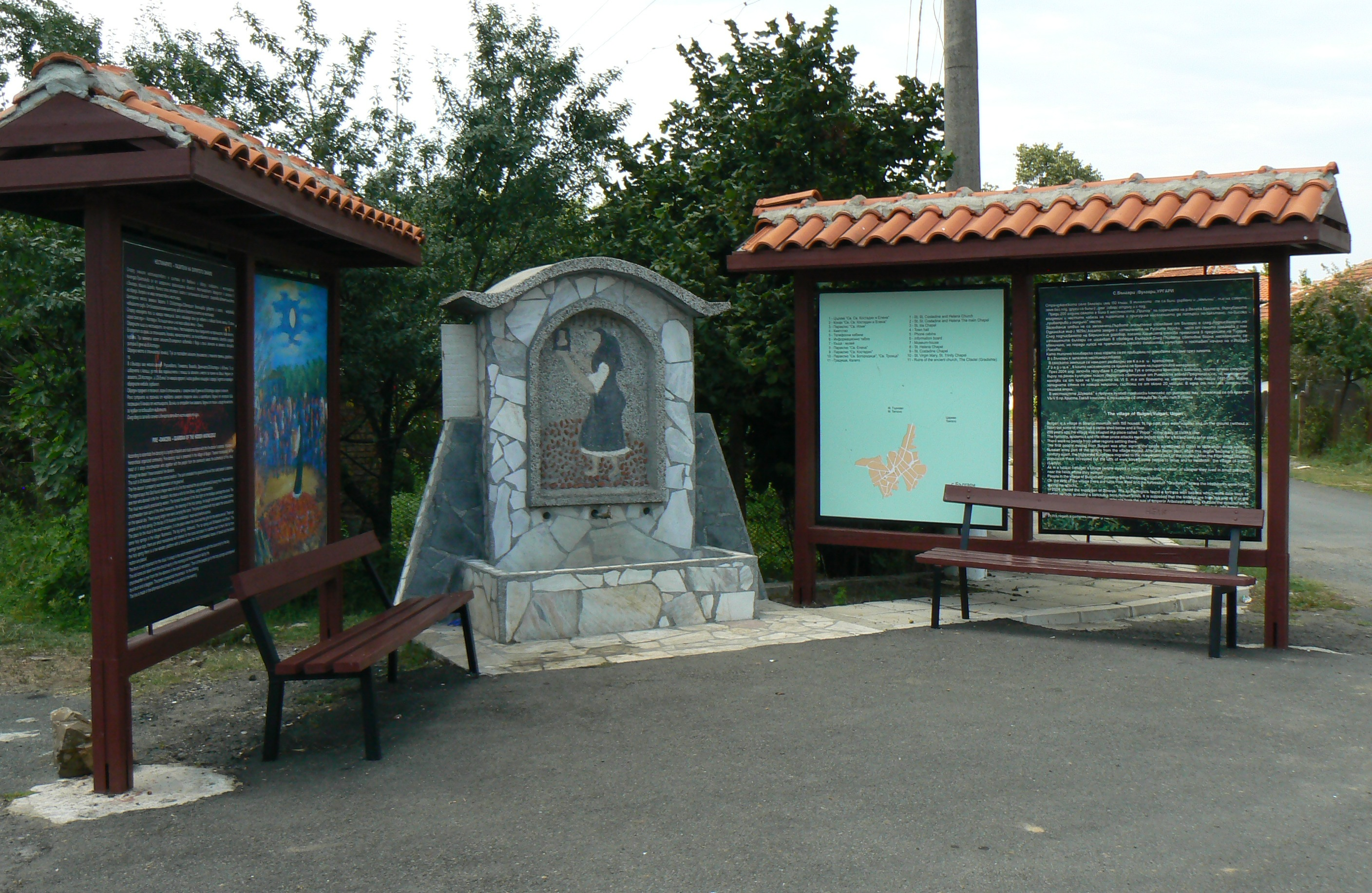 The firedancer's drinking fountain in village Balgari, Burgas district, Bulgaria